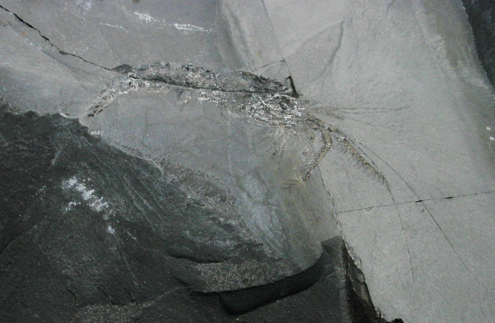 Fossil of Aeger foersteri, an extinct shrimp